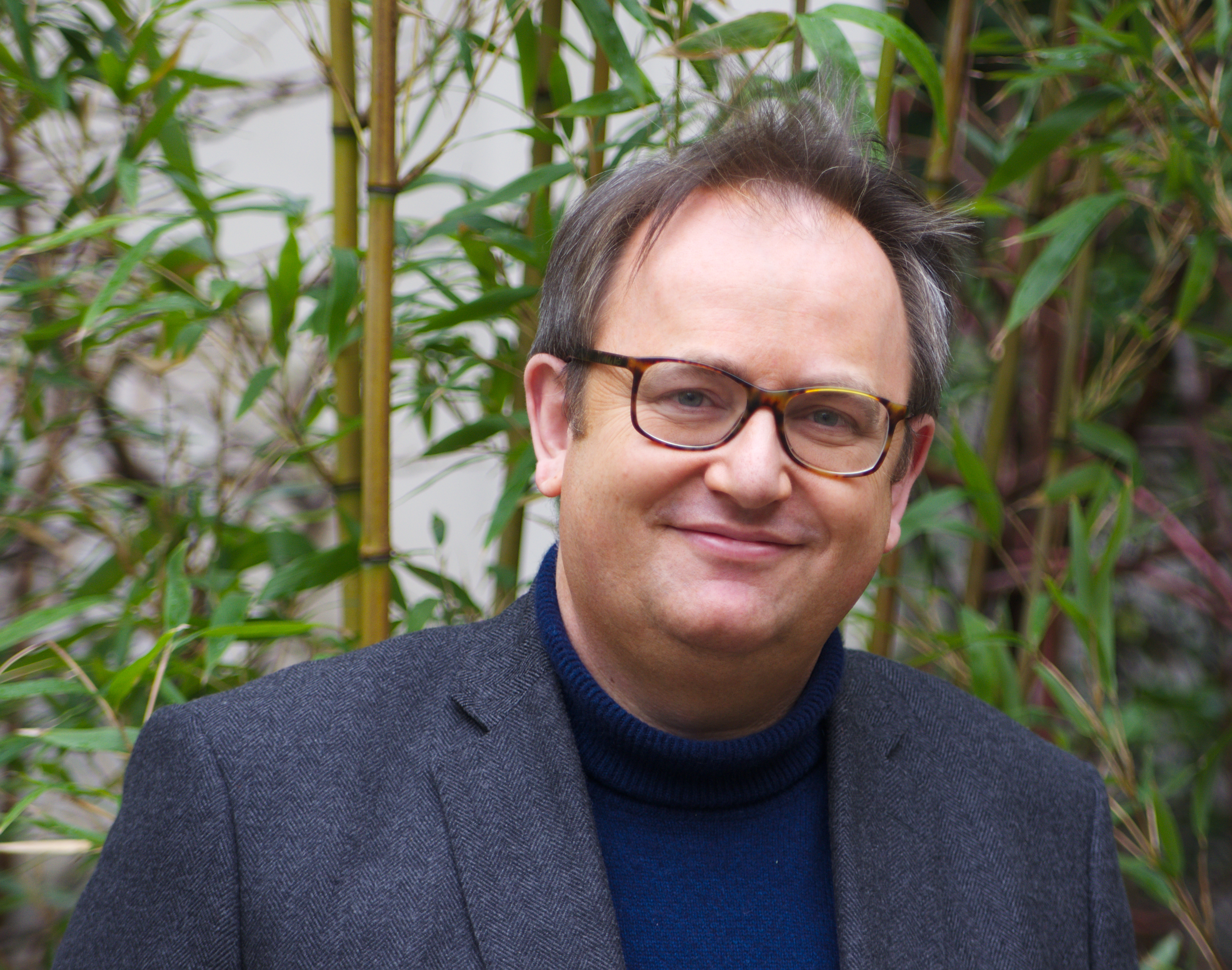 Jean-Yves Leconte, sénateur des Français de l'étranger